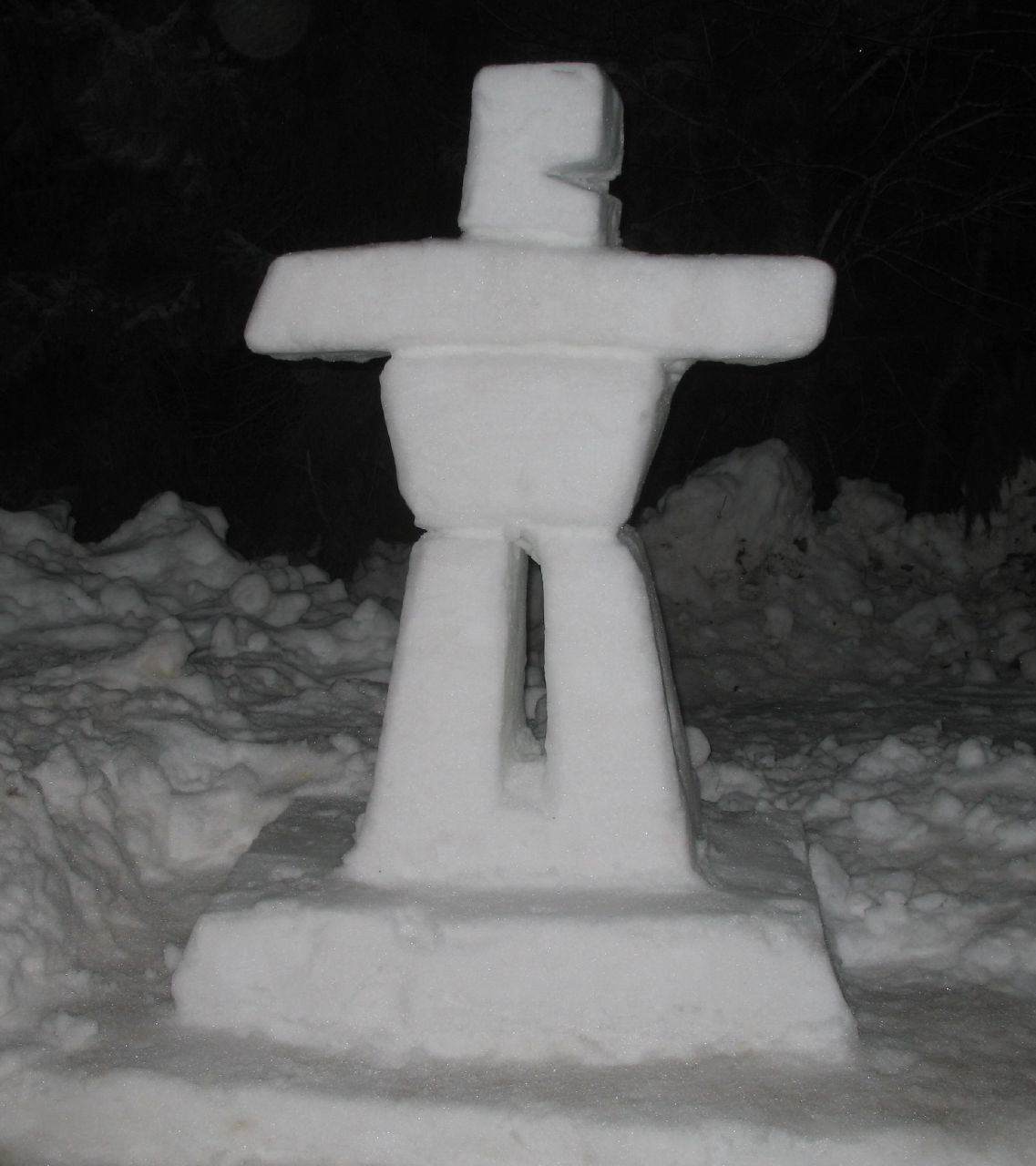 Representation of Ilanaaq , the logo of the 2010 Winter Olympics